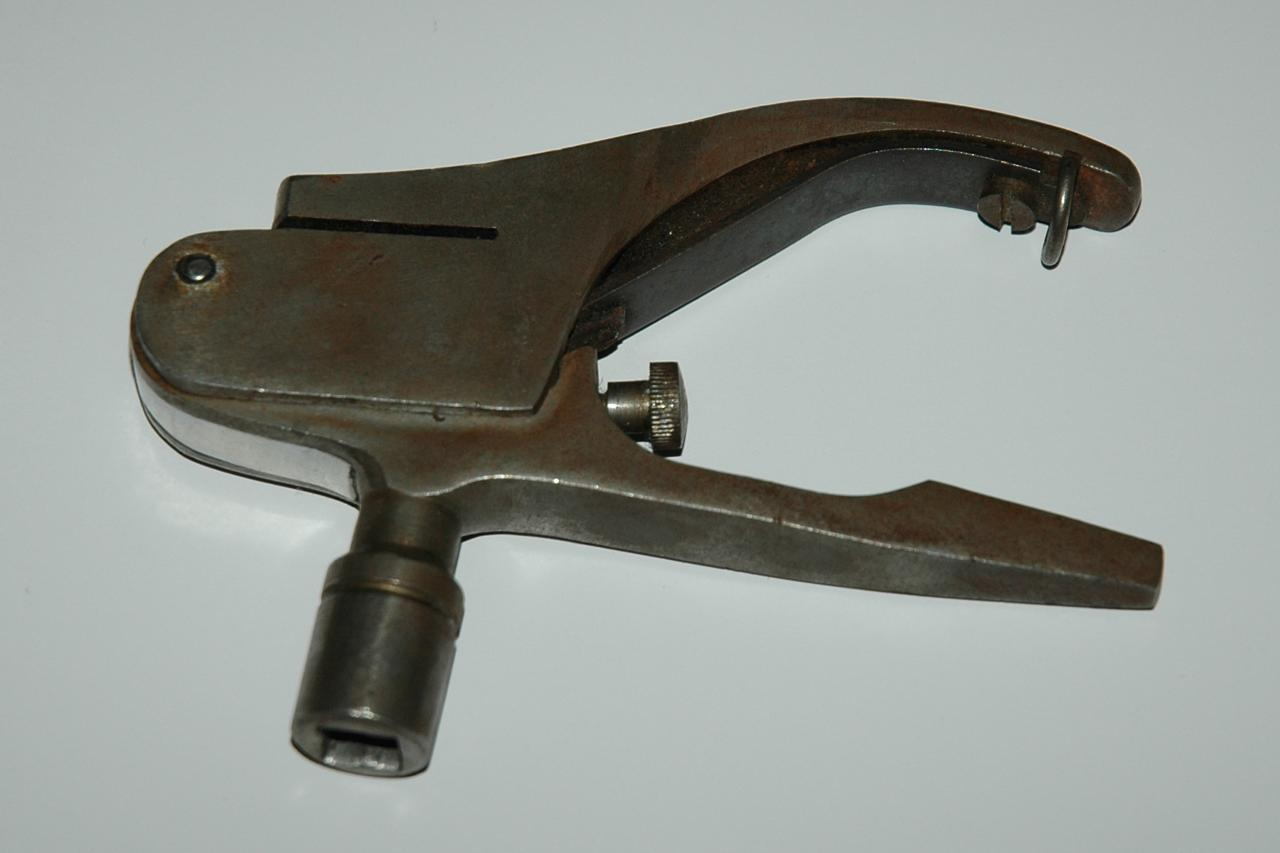 Rail ticket punching tongs with squareend spanner